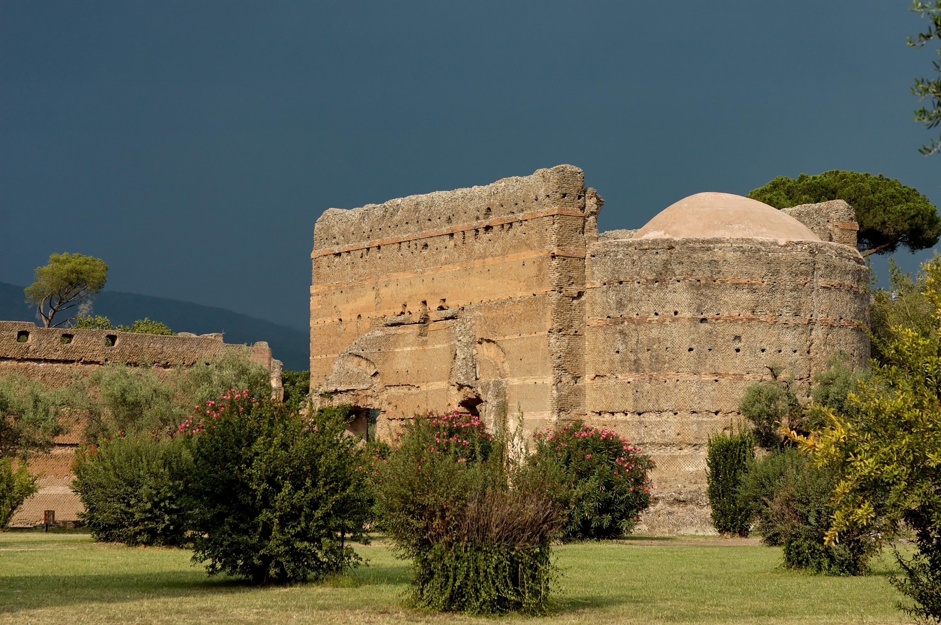 Philosophers Hall at the Villa Adriana in Tivoli. View from the Poikile, picure taken just before a thunderstorm, hence the odd colours.